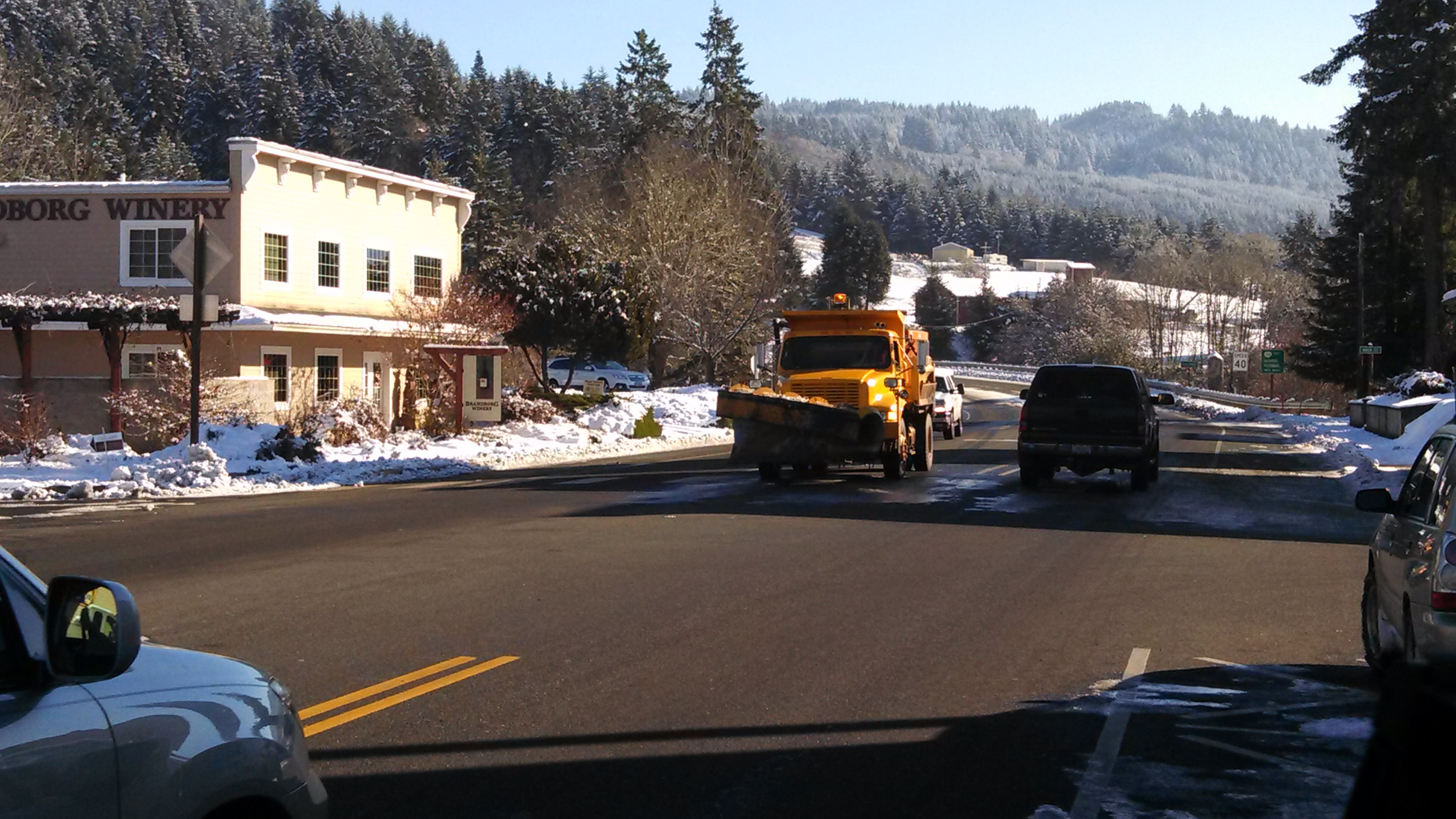 ODOT crews in Douglas County worked all day Dec. 6 to break up snow pack and clear highways like Oregon 38.